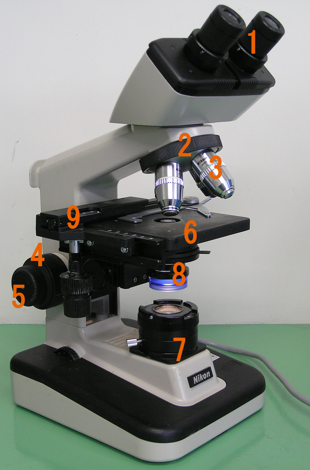 typical optical microscope for academic use in 1990-2000s,Nikon Alphaphot